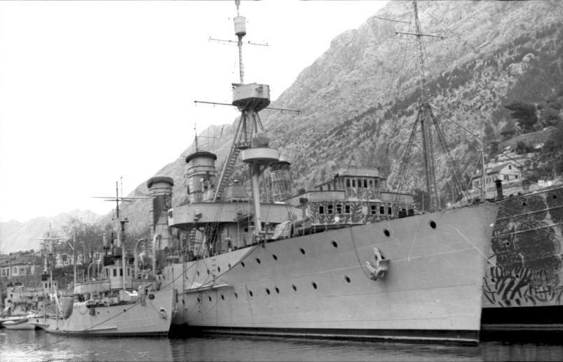 Yugoslavian cruiser Dalmacija (ex. German Niobe, later used by the Italians as Cattaro, then by the Germans as Niobe) and minelayer Mljet and Meljine (left)